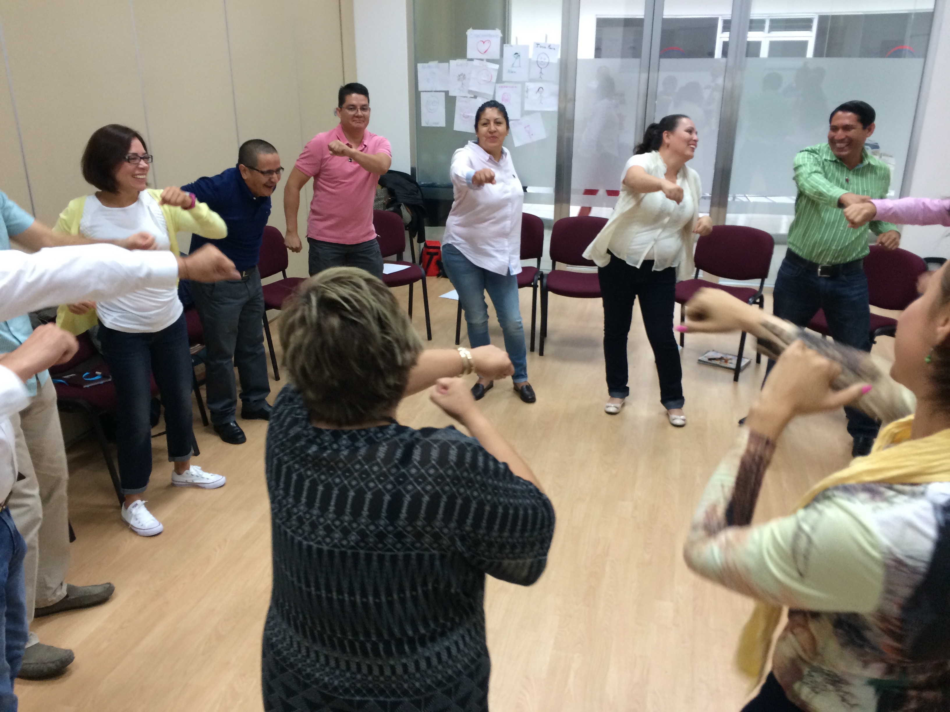 Magda Juárez energizing employees of an automotive industry, before a workshop to improve the KPIs.